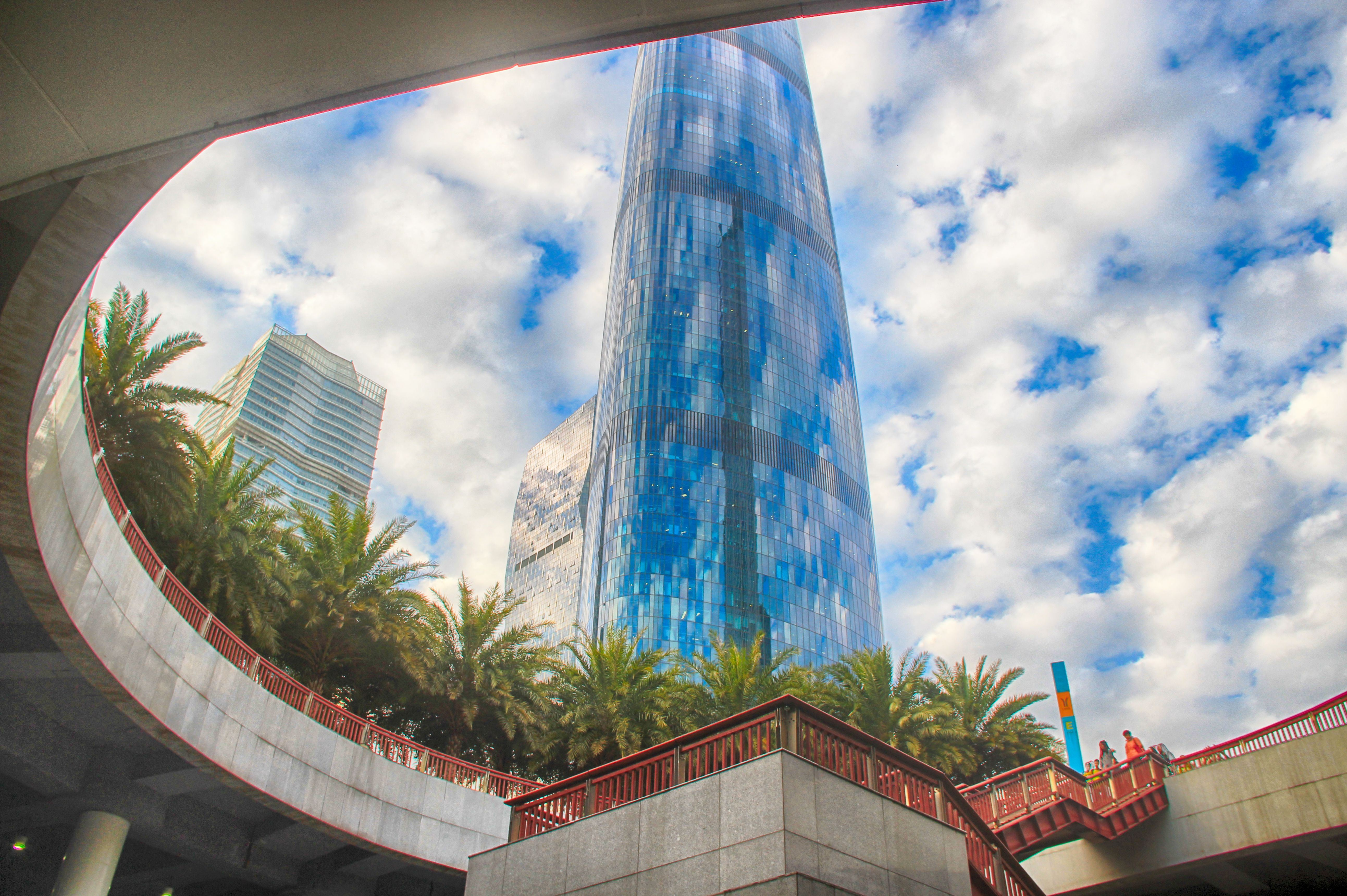 Canton West Tower 粵語: 廣州西塔